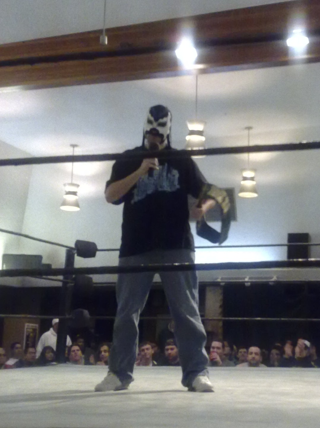 Excalibut holds the PWG World Championship at Pro Wrestling Guerrilla's Battle of Los Angeles 2009. The championship had been vacated and was to be awarded to the winner of the BOLA tournament.